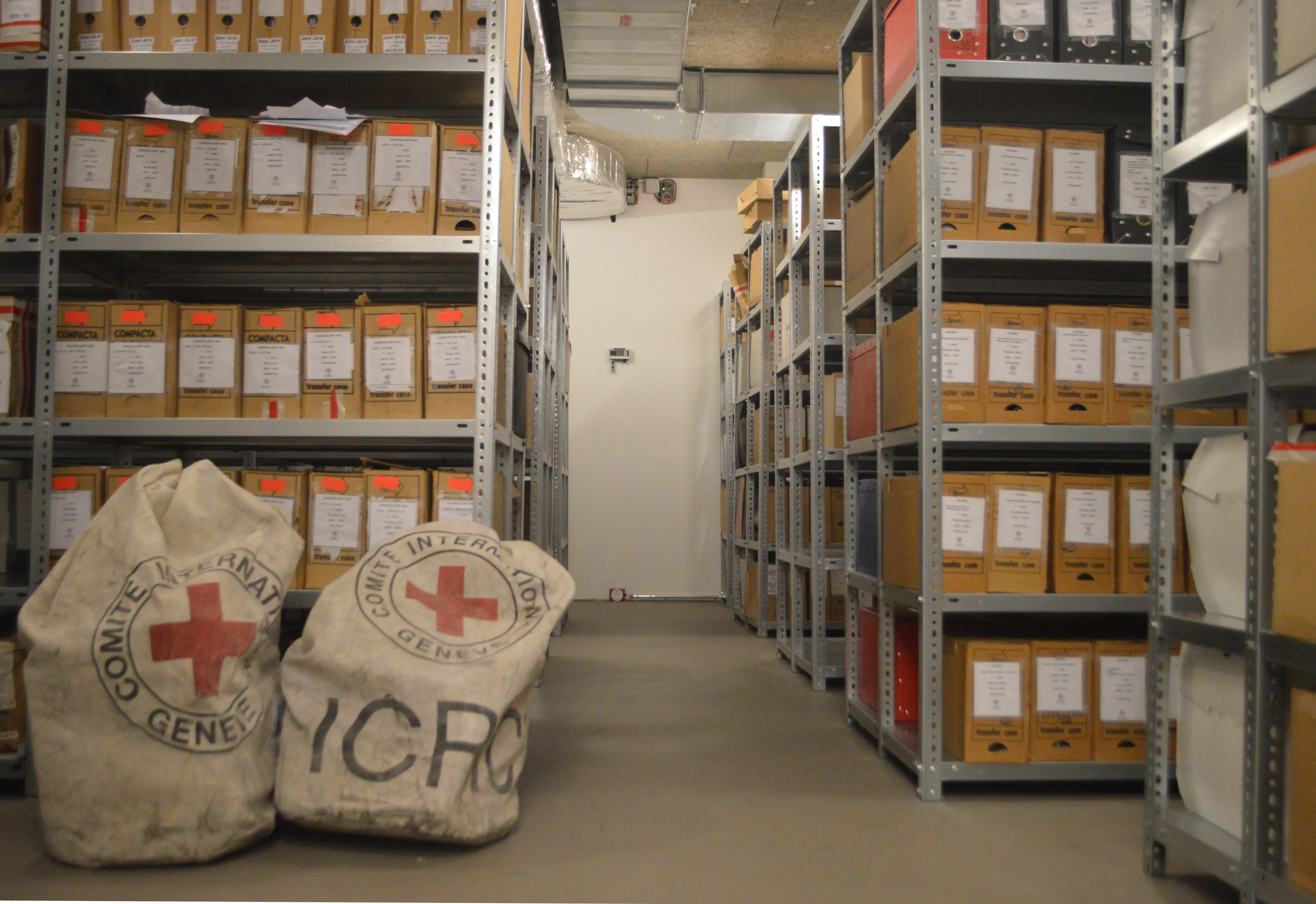 The semi-current archives of the International Committee of the Red Cross (ICRC) in Satigny, Switzerland. They contain records which are only infrequently used in ongoing operations and thus have reached the intermediate phase of their archival life cycle. The ICRC logistics center, which houses the archives, was inaugurated in 2011 as an expansion to the archives at the headquarters in nearby Geneva. - Photo taken and uploaded in the context of the International Archives Week 2020 of Wikimedia Switzerland, Austria and Germany and the Association of Swiss Archivists.